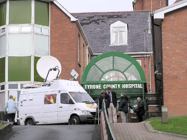 Tyrone County Hospital. I was passing the day that it was announced that this hospital was about to be replaced with another facility - a blow to the local community, camera men and reporters pictured outside with a van equipped with a satellite dish to beam back the scene to the studio.